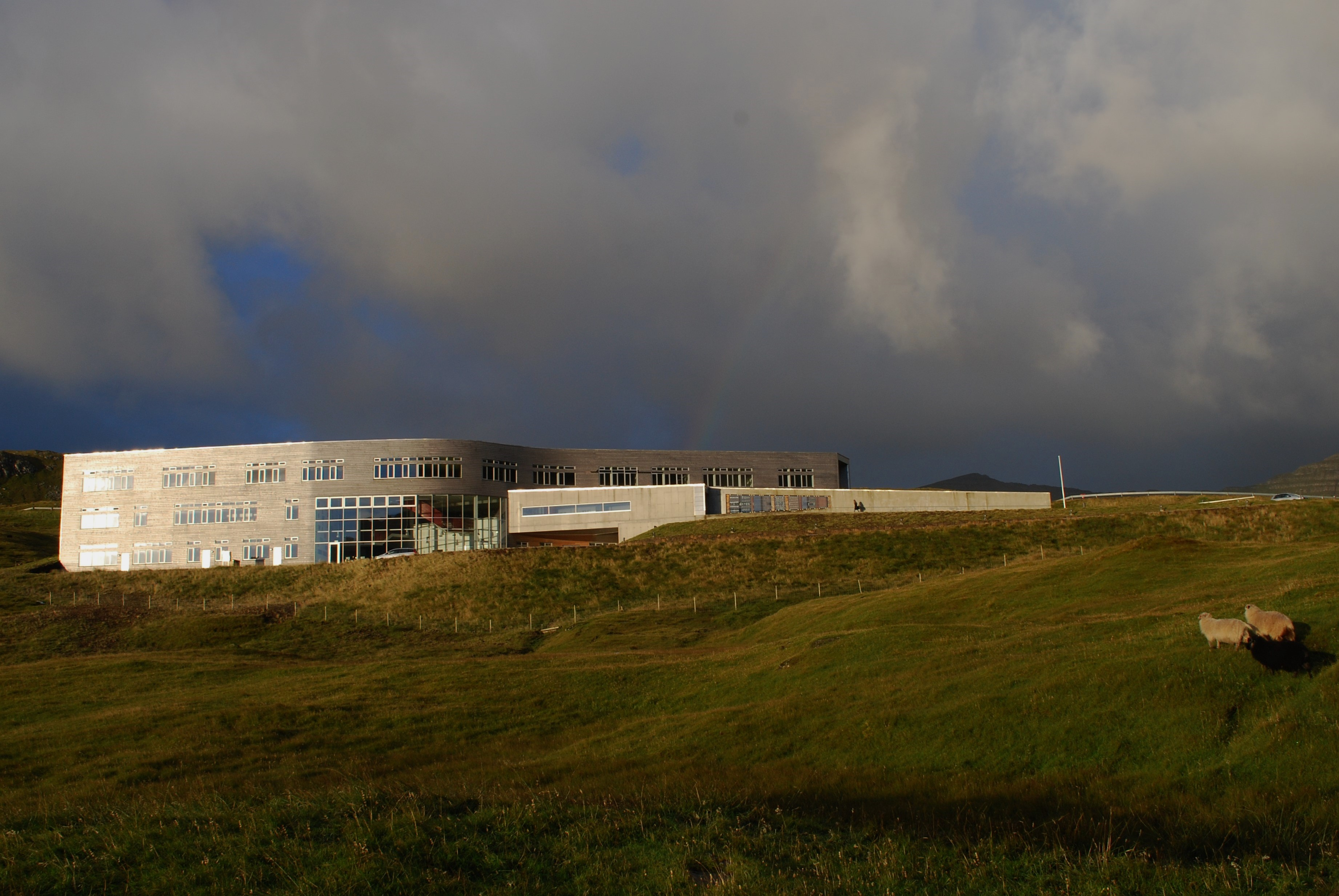 Miðnámsskúlin, Suðuroy Gymnasium and the Healh School are located in this building, Suðuroy, Faroe Islands